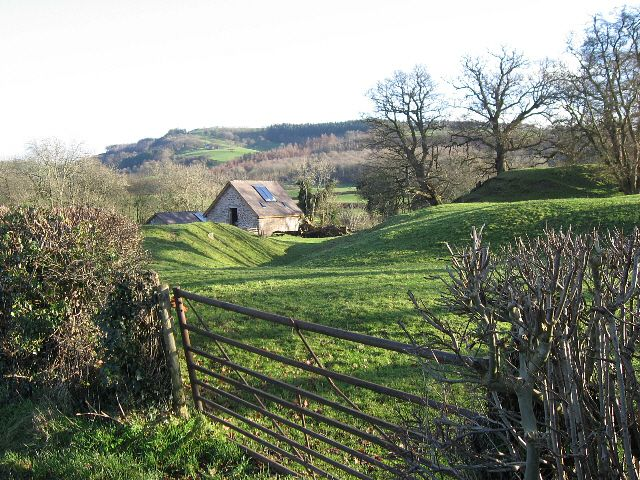 Mathrafal Castle - Entry To The Earthworks. The earthworks beyond the gateway are all that remains on the site of the former castle.